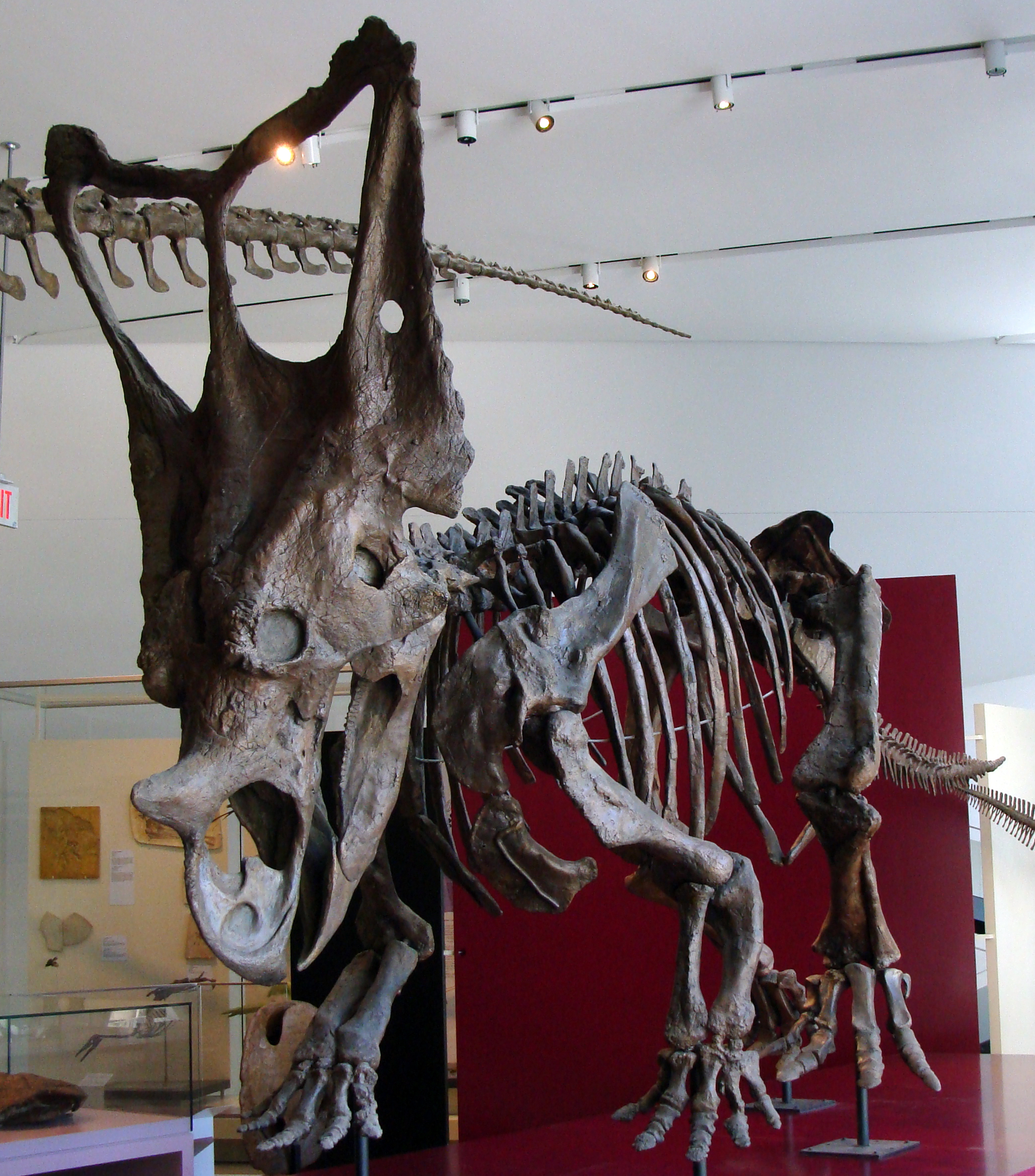 Chasmosaurus on display at the Royal Ontario Museum.